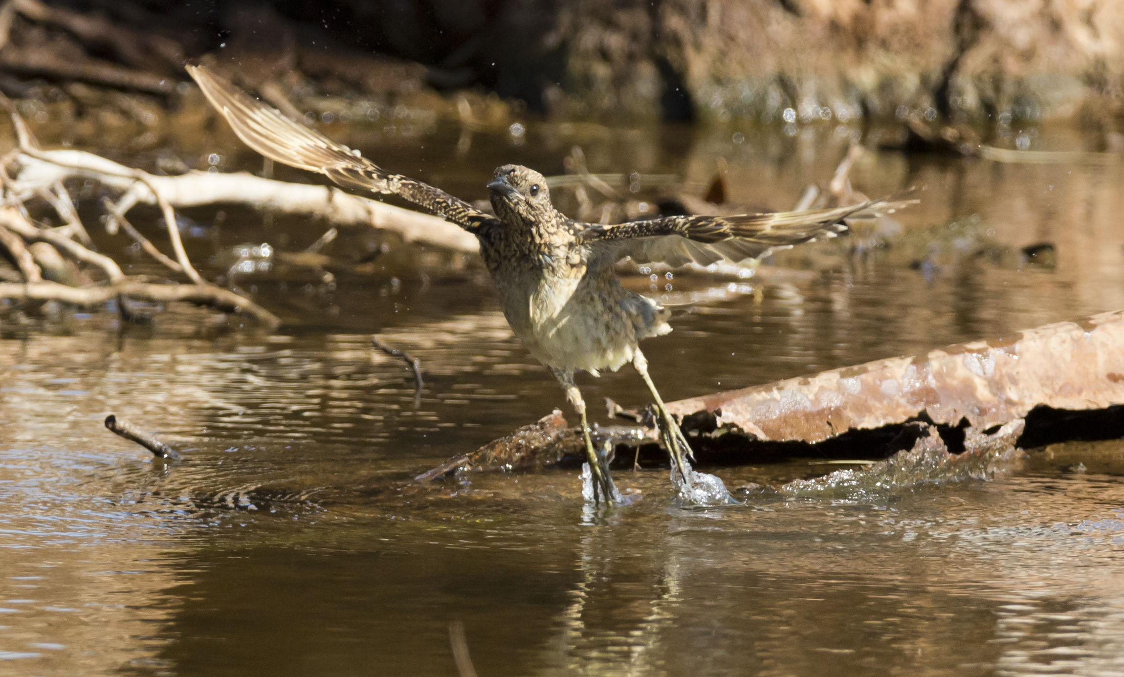 bath time for a western bowerbird